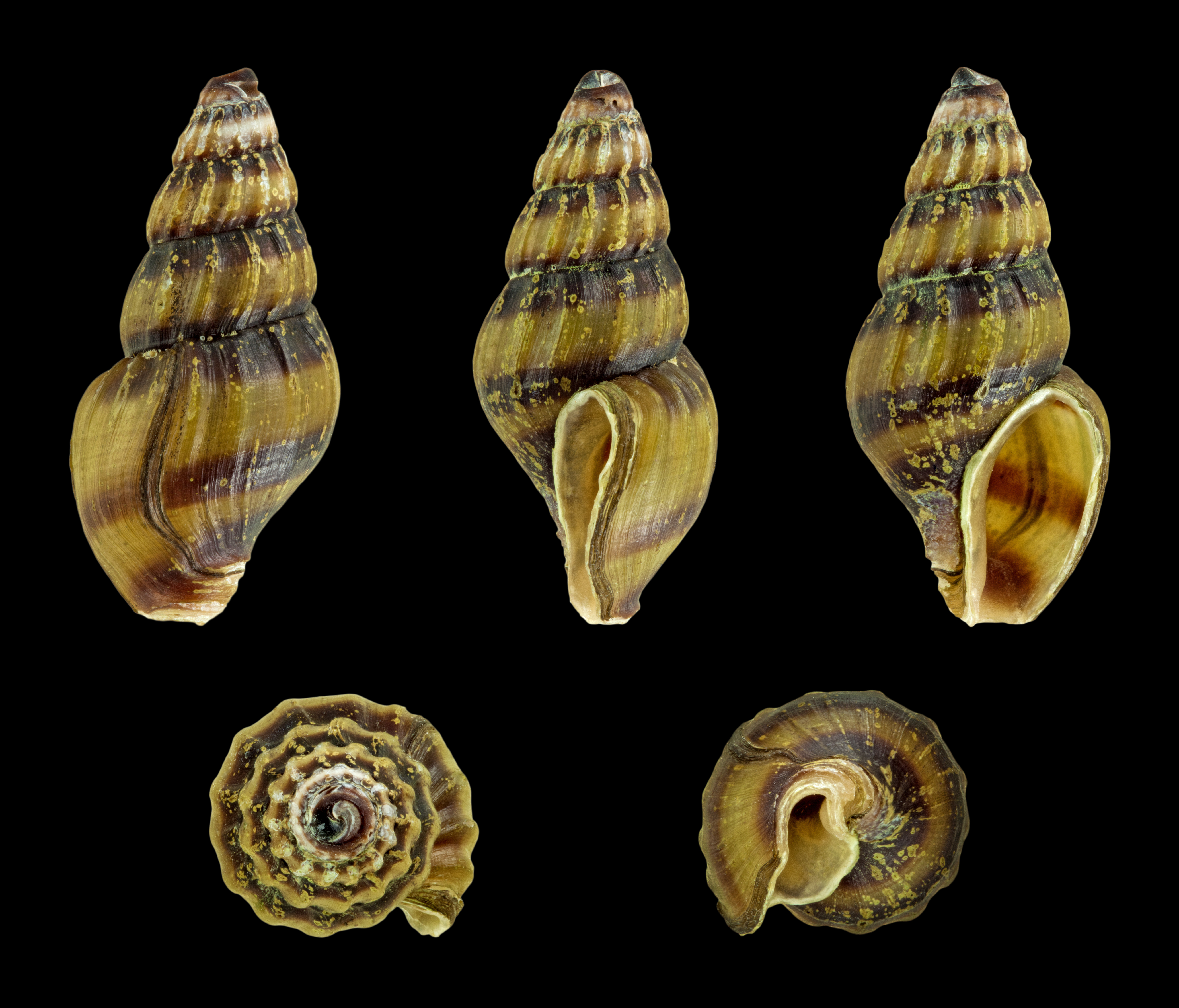 Anentome helena (Philippi, 1847), Assassin snail, Length 1.6 cm; Originating from an aquarium breeding; Shell of own collection, therefore not geocoded.